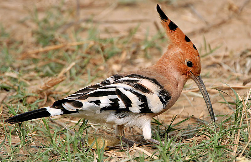 Common Hoopoe Upupa epops at/ near Hodal in Faridabad District of Haryana, India.